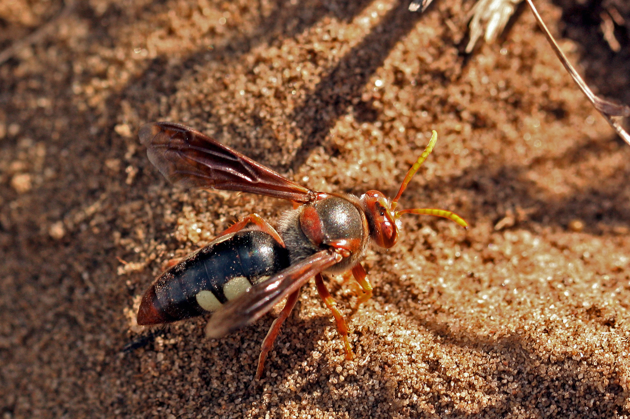 Wasp (Stizus fuscipennis), Kwa-Zulu Natal, South Africa